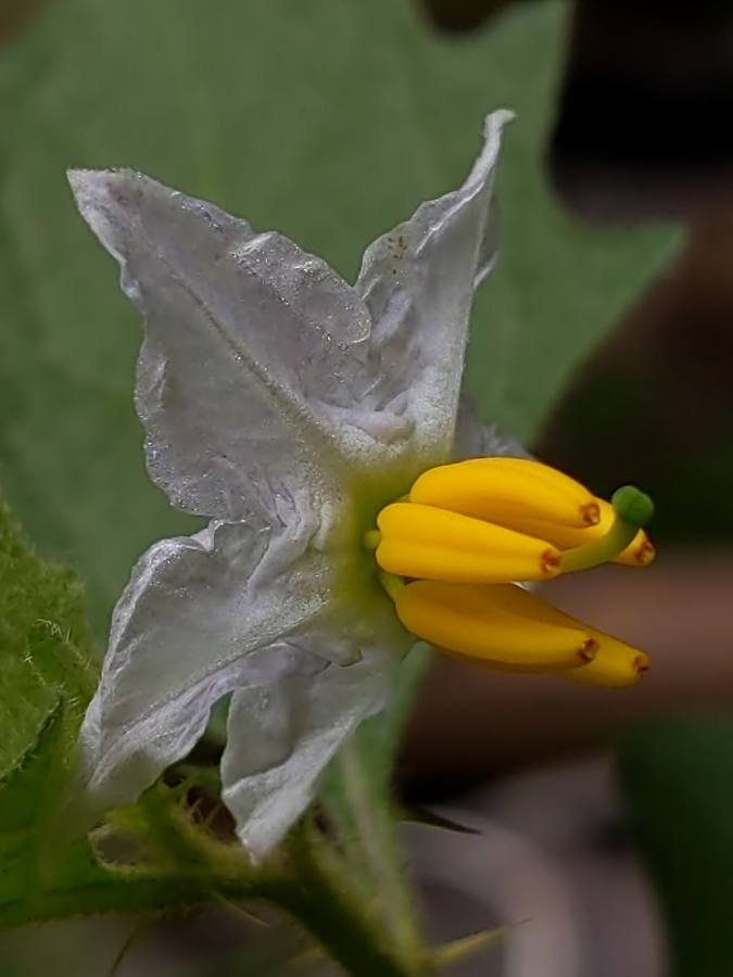 Solanum carolinense, horsenettle, flower